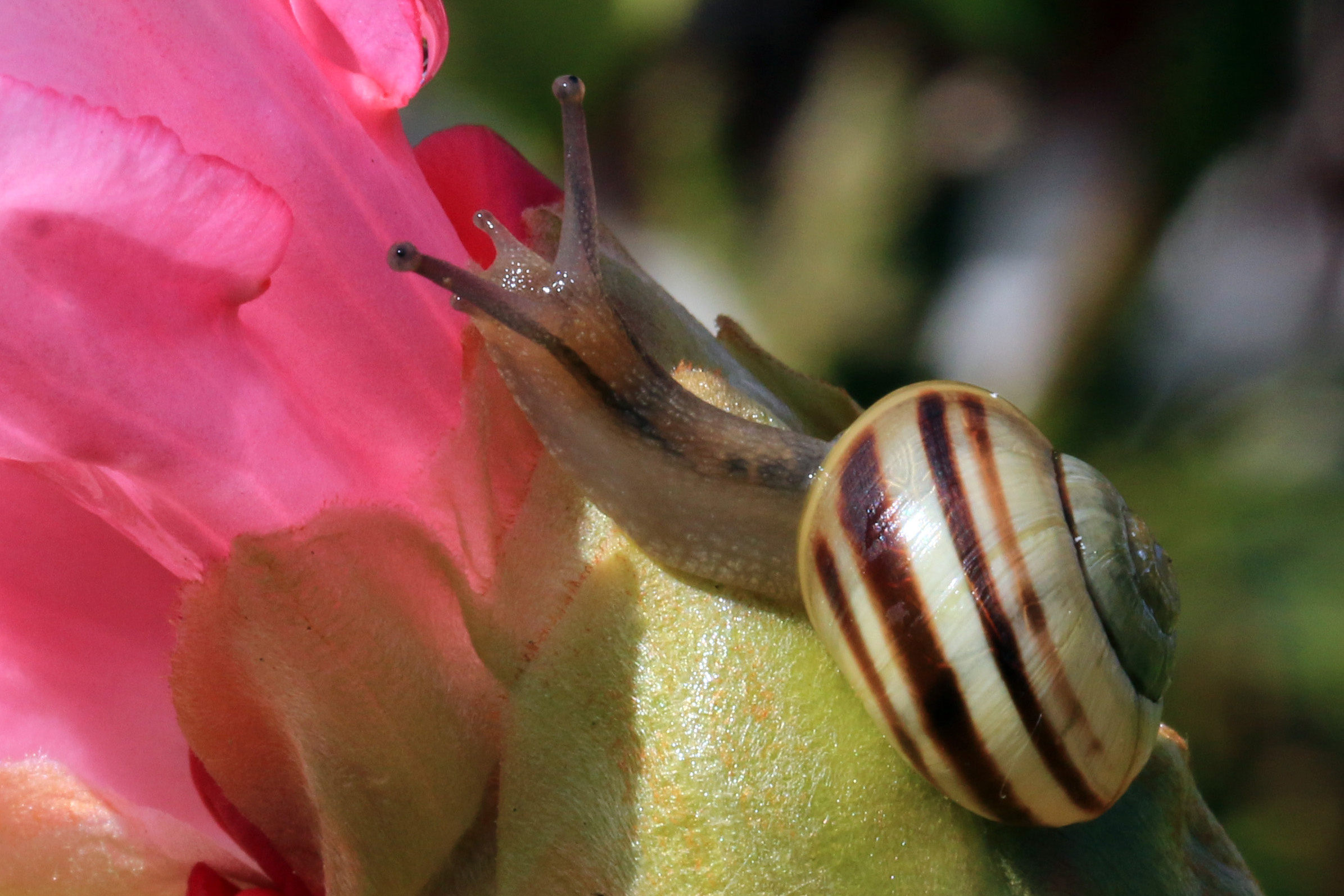 White-lipped snail (Cepaea hortensis) on rhododendron, Cumnor Hill, Oxford